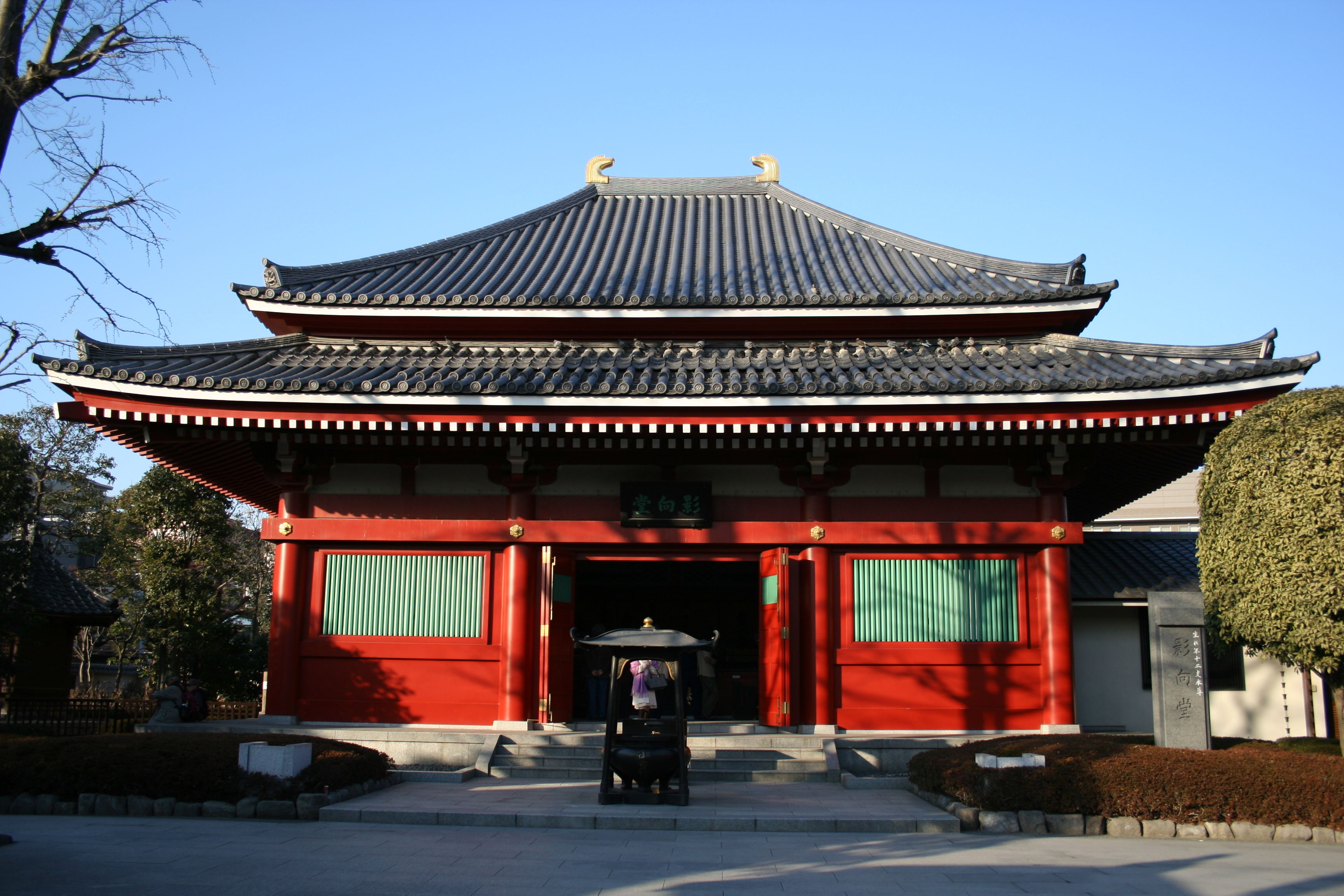 View of Yōgōdō Hall at Sensō-ji buddhist temple in Tokyo, Japan.